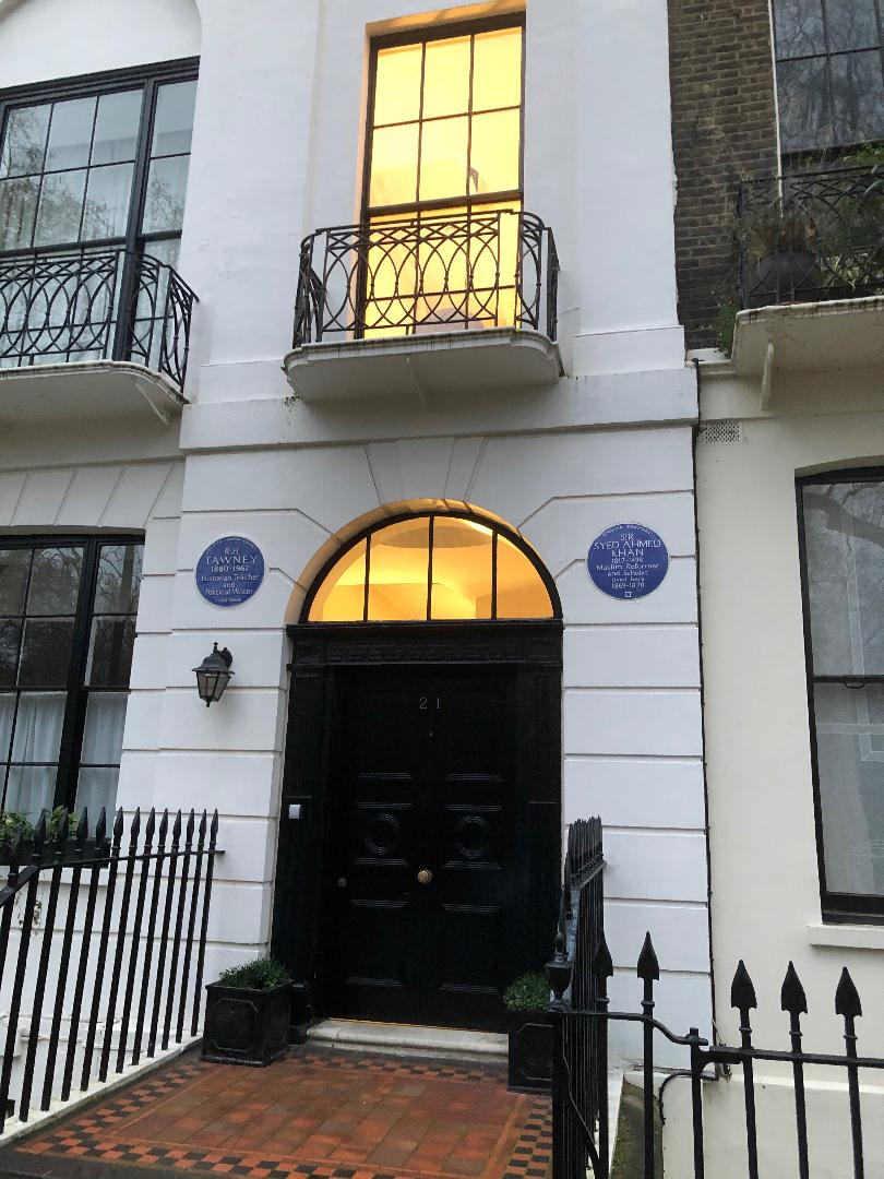 21, Mecklenburgh Square, London, England - home to the political philosopher R H Tawney and the social reformer Syed Ahmad Khan